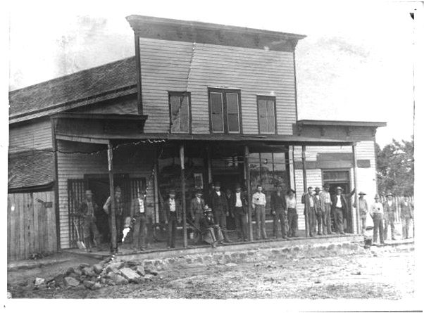 J. M. Hall & Co. Store, Tulsa, Indian Territory (now Oklahoma), One of the earliest buildings in Tulsa. (Now demolished)